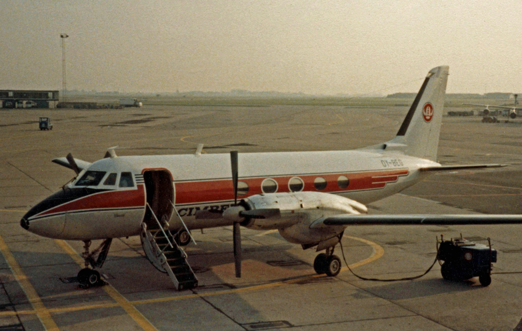 Grumman G159 Gulfstream 1 of Cimber Air (Denmark) at Copenhagen (Kastrup) Airport